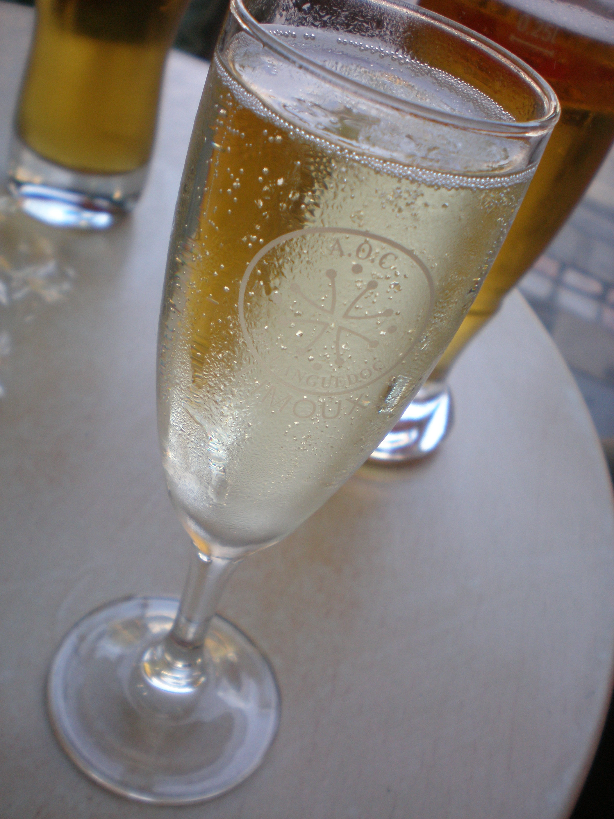 A glass of sparkling wine from the Limoux region of France.